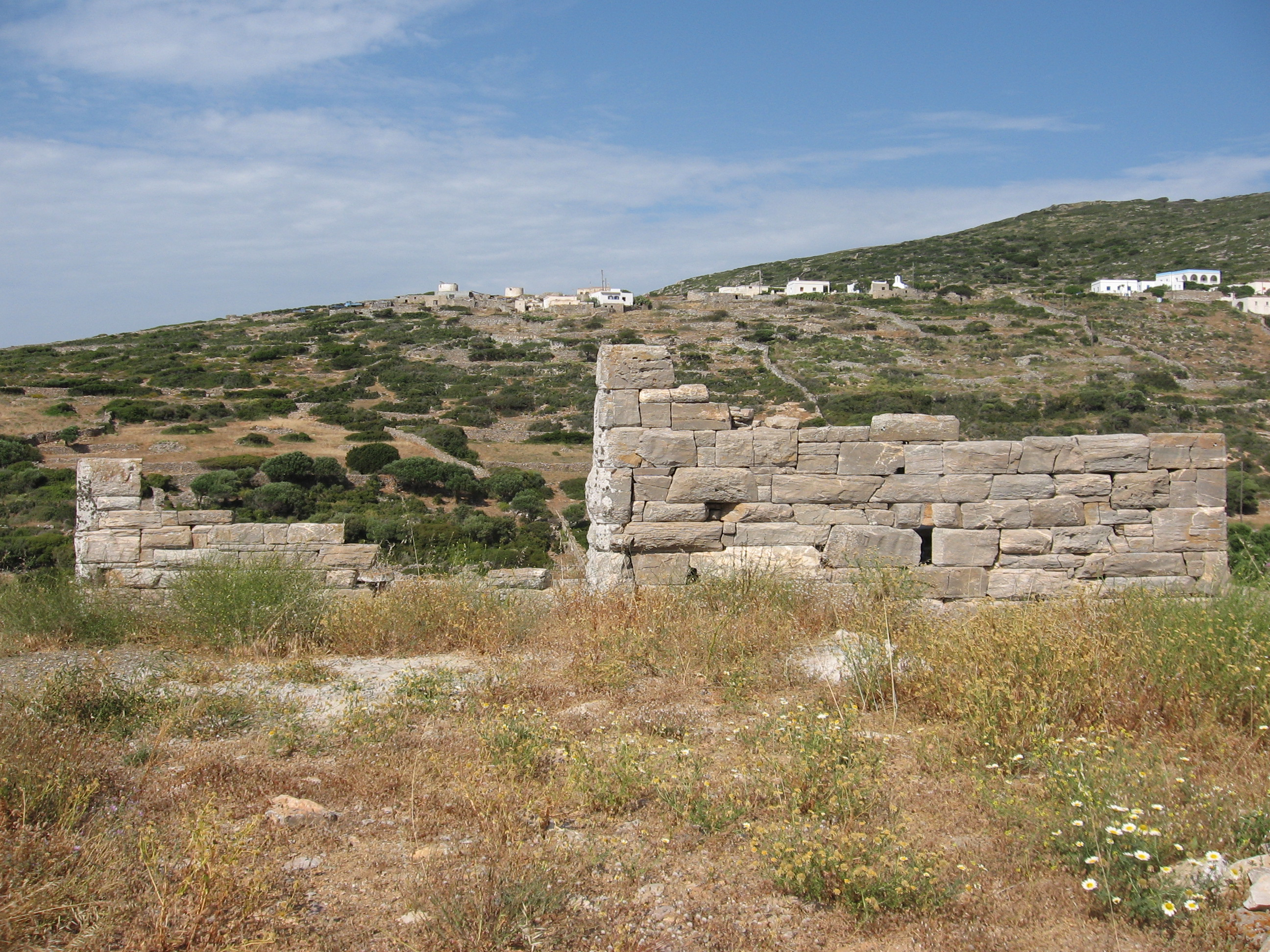 Hellenistic tower of Agia Triada, Arkessini, Amorgos island, with Rachoula village at the back